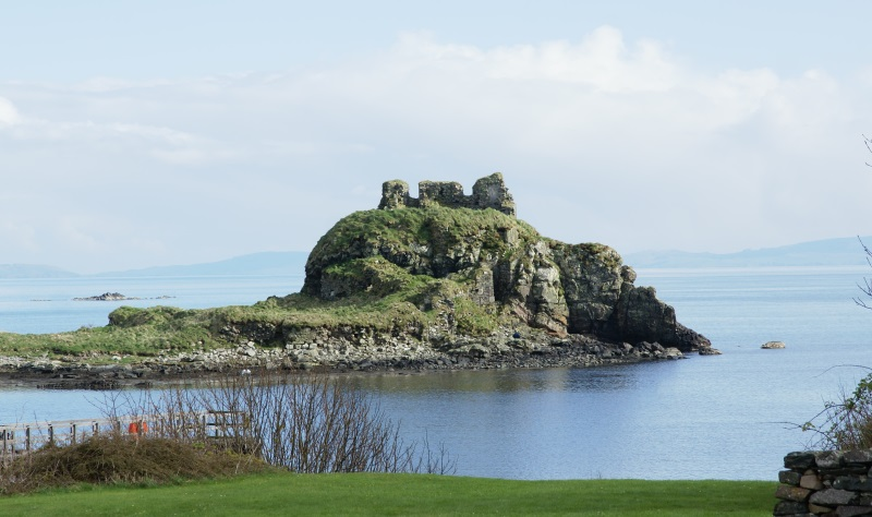 Dunyvaig Castle, Islay, Argyll and Bute, Scotland. Seen from north west across Lagavulin Bay